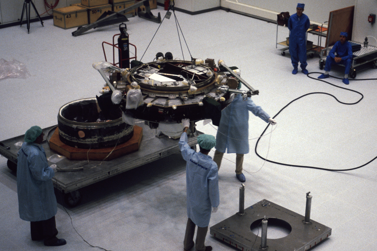 The Viking satellite is delivered to CSG in Kourou and is lifted from the transportation container to the handling dolly.